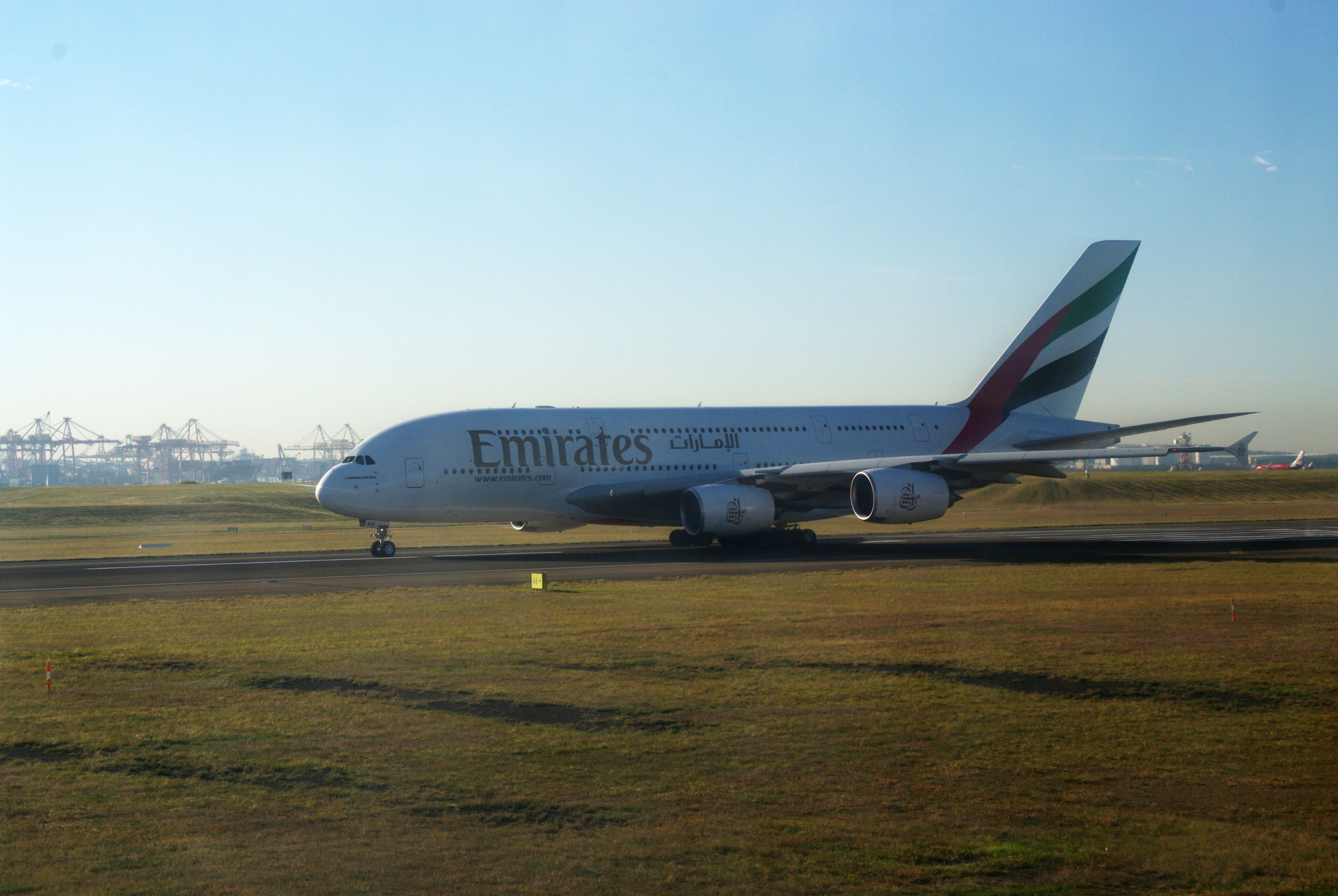 The A380 from Emirates shortly before take off in Sydney